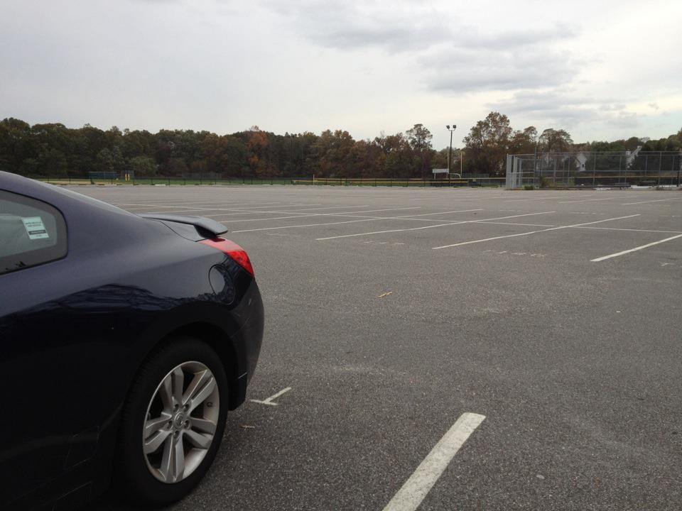 Senior parking lot at Ward Melville High School on November 1st